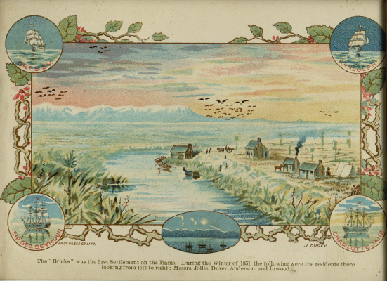 The Bricks was the first settlement in Christchurch (New Zealand) on the southern bank of the Avon River. The inserts show the First Four Ships that landed the colonists in 1850. Painted by John Dury in 1851. has more information.